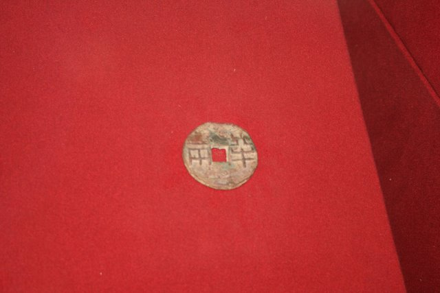 A banliang coin from the Chinese Han Dynasty.